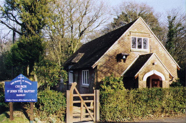 St John the Baptist's church, Bashley, Hampshire